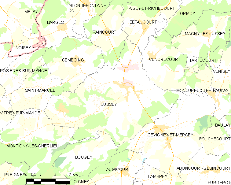 Map of French municipality